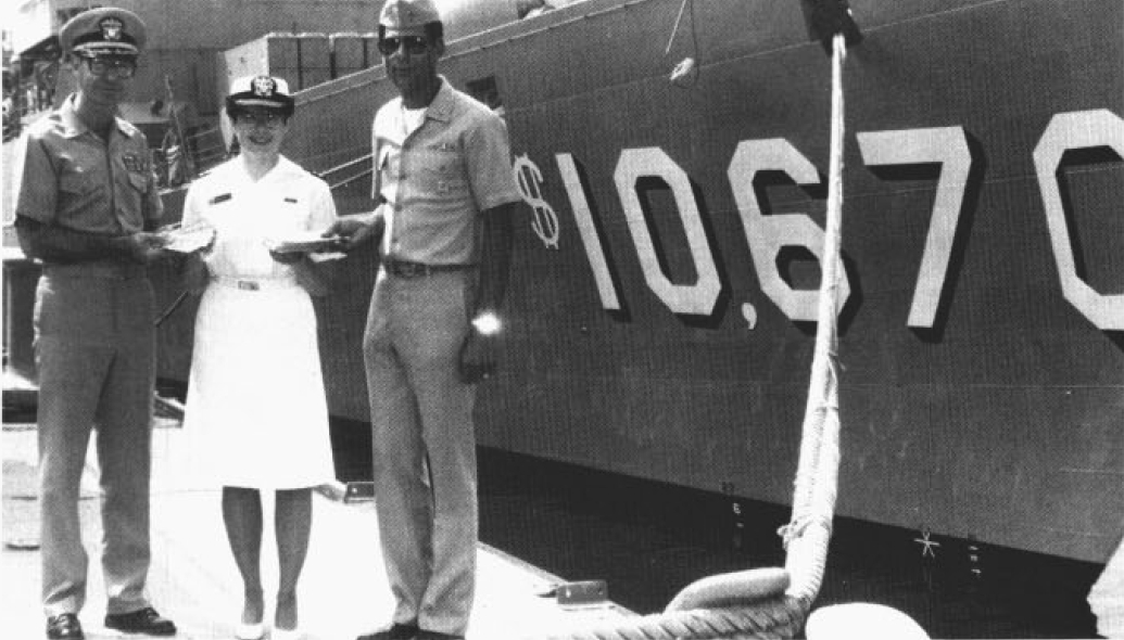 In 1986, the crew of the U.S. Navy frigate USS Francis Hammond (FF-1067) raised more than $ 11,000 for the U.S. Navy Relief Fund. The goal had been to raise an amount of money equal to Hammond's hull number "1067", times ten. To commemorate the achievement, Hammond asked for and received permission to add a dollar sign and an extra zero to her hull number.